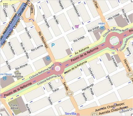 Reforma Cuauhtemoc-Juarez